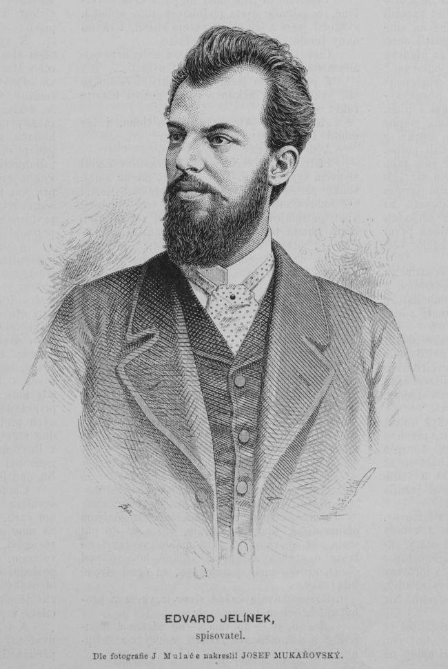 Portrait of Edvard Jelínek, Czech writer.